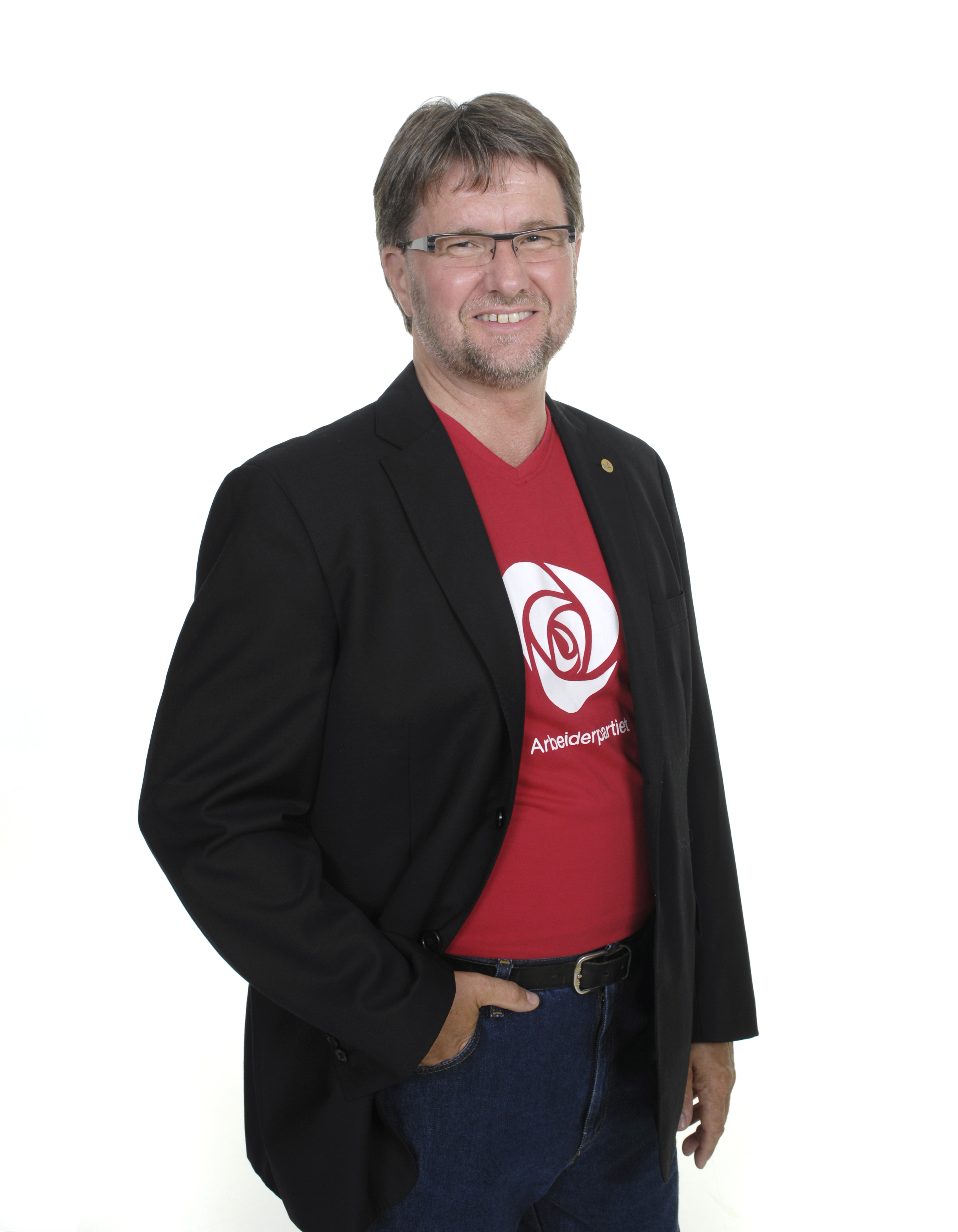 Arild Hausberg, mayor of Tromsø